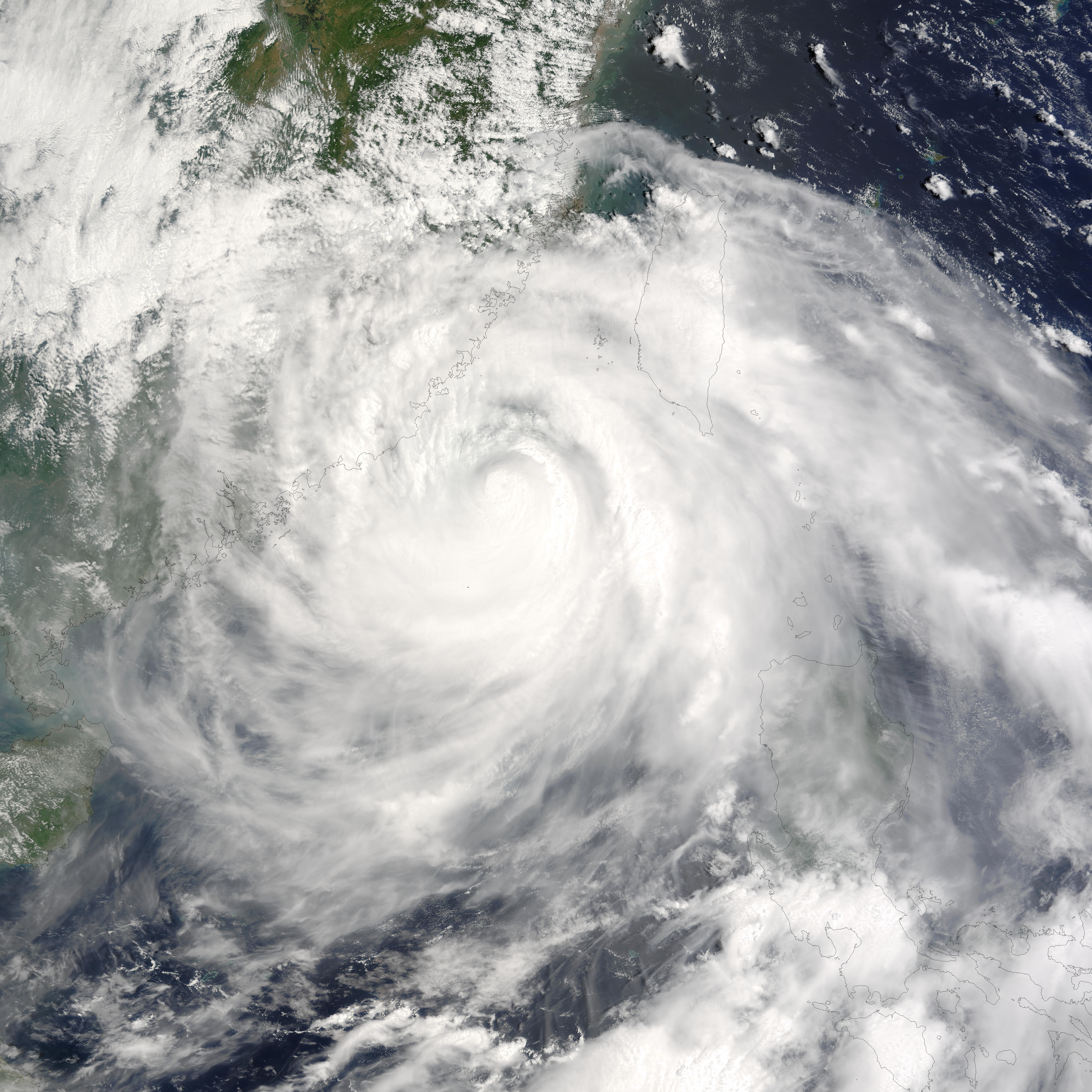 The MODIS instrument onboard NASA´s Terra spacecraft captured this bird´s-eye view of Typhoon Dujuan (Mandarin for azalea) as it was located just off the coast of China, near Hong Kong. At the time this image was taken on September 2, 2003, Dujuan was packing sustained winds near 70 mph with higher gusts and was moving toward the west-northwest at 21 mph.